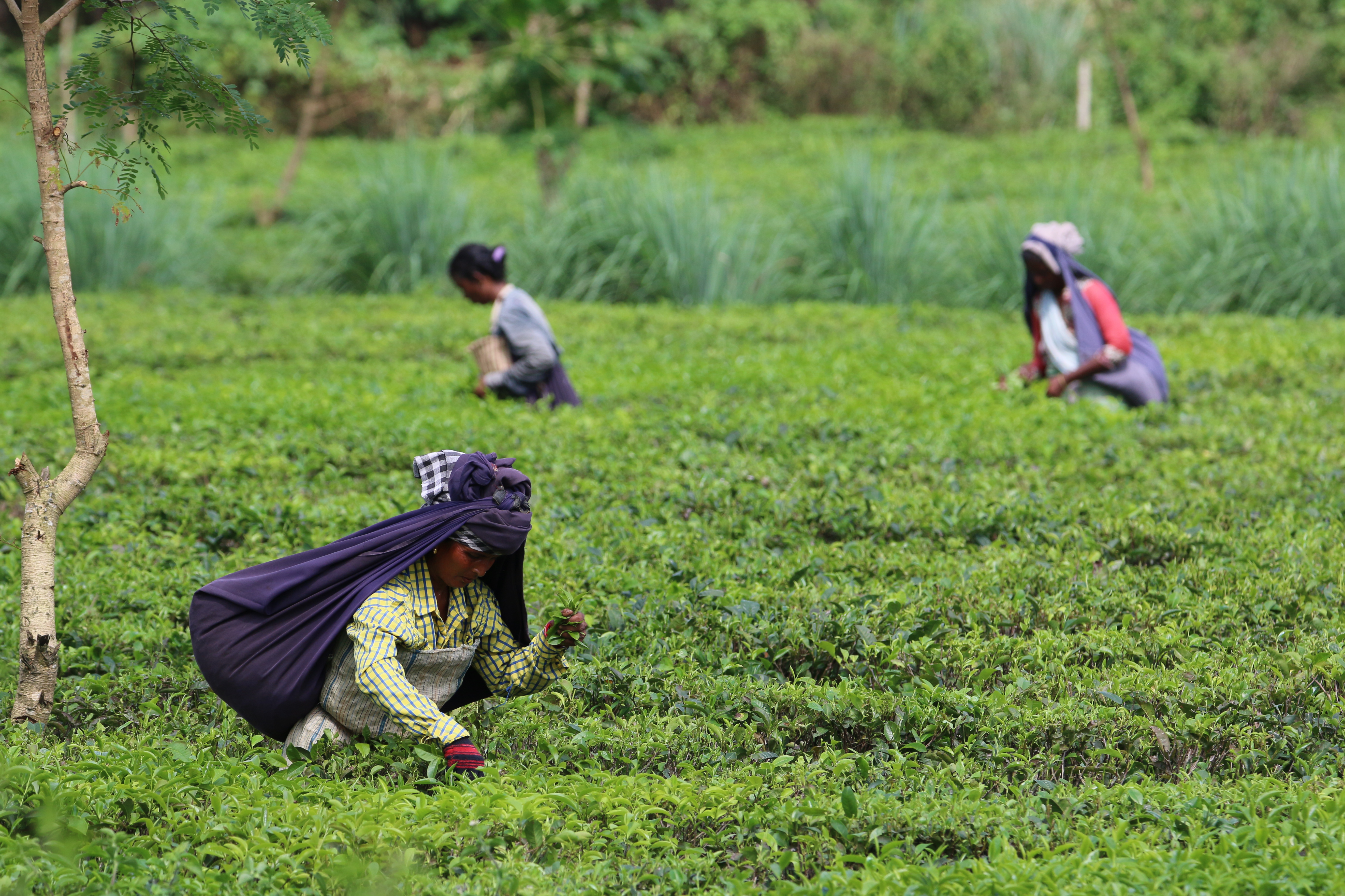 Workers are working in a Tea Garden of Dooars, North Bengal, India. There are many female workers, working in this sector.